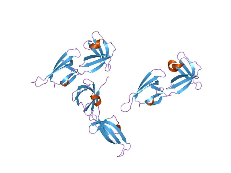 Cartoon representation of the molecular structure of protein registered with 1iz6 code.